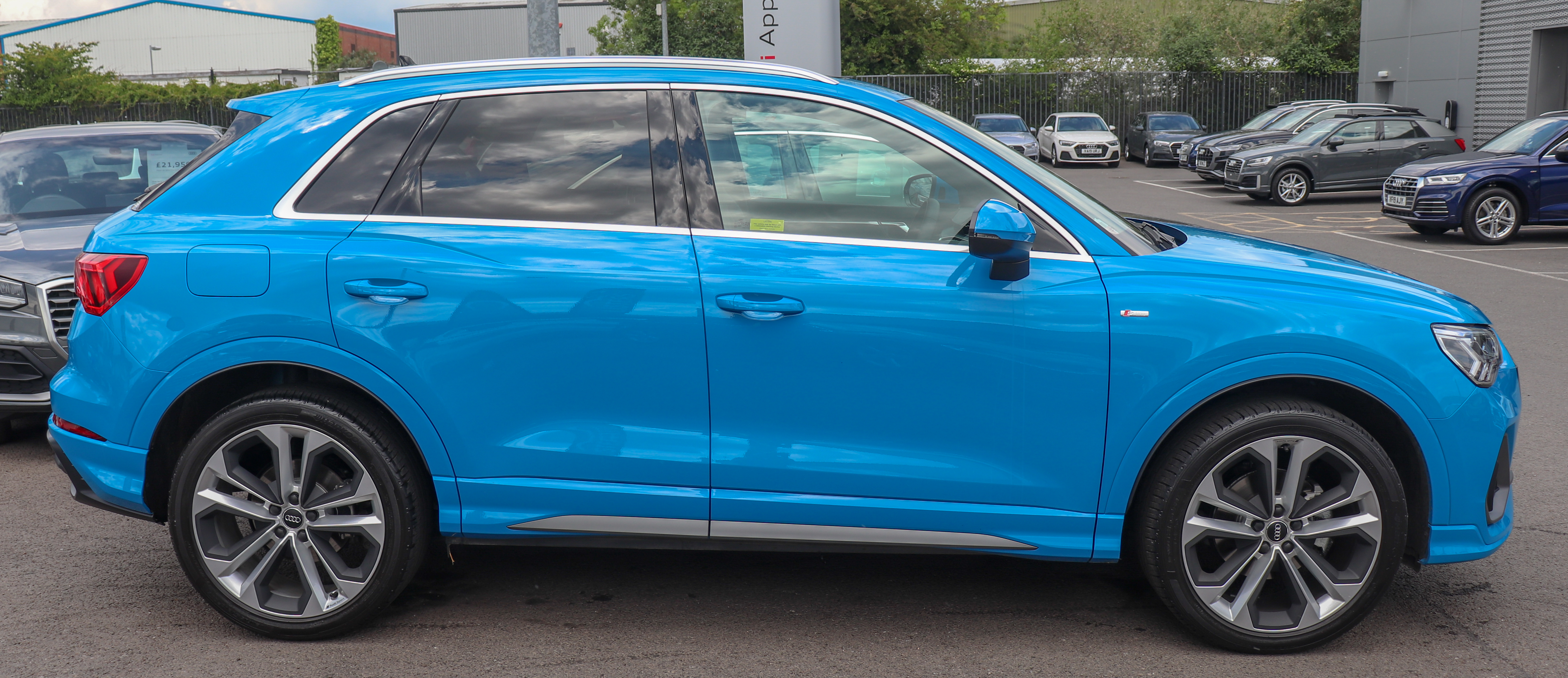 2019 Audi Q3 S Line 35 TDi S-A 2.0 Side Taken in Stratford-upon-Avon